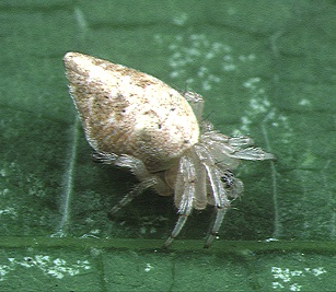 female Cyclosa alba from Okinawa.